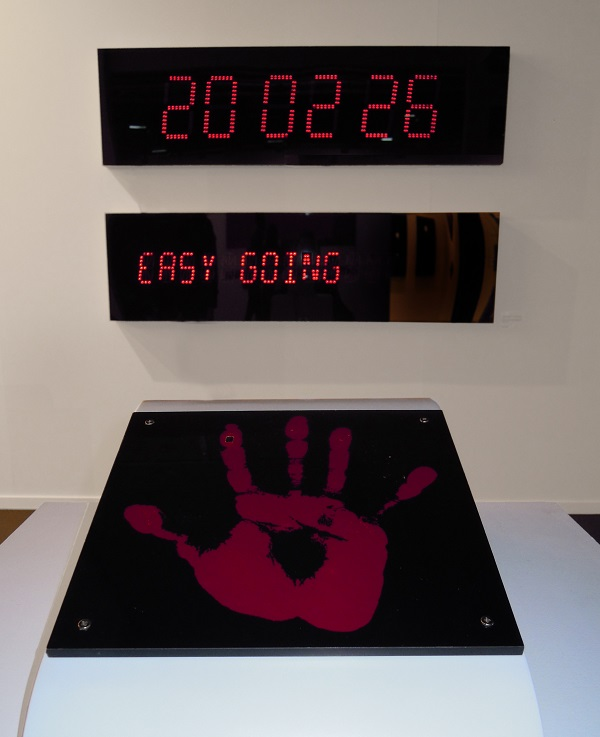 oeuvre